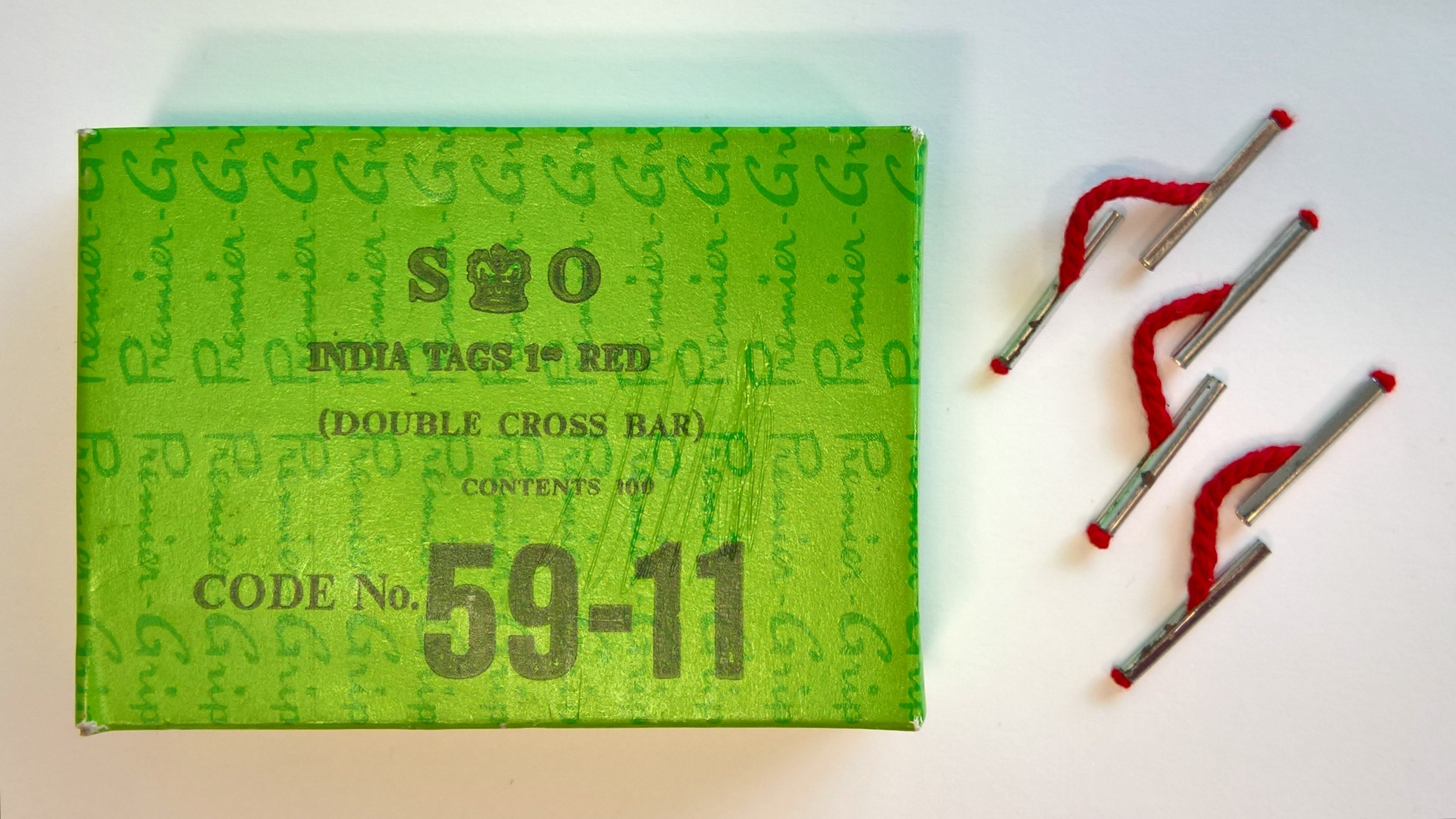 A box of Her Majesty's Stationery Office-branded India tags manufactured by Premier-Grip.